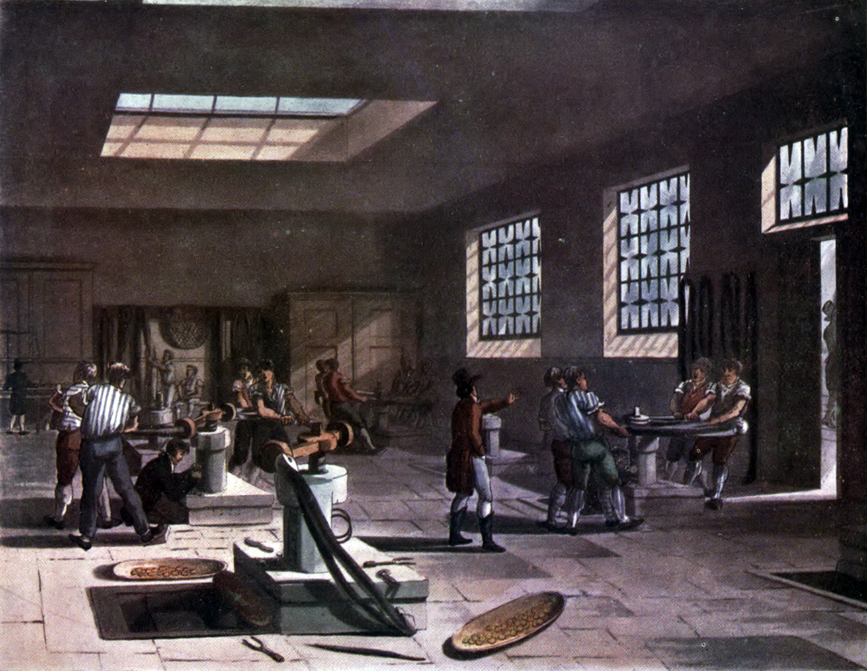 The Mint